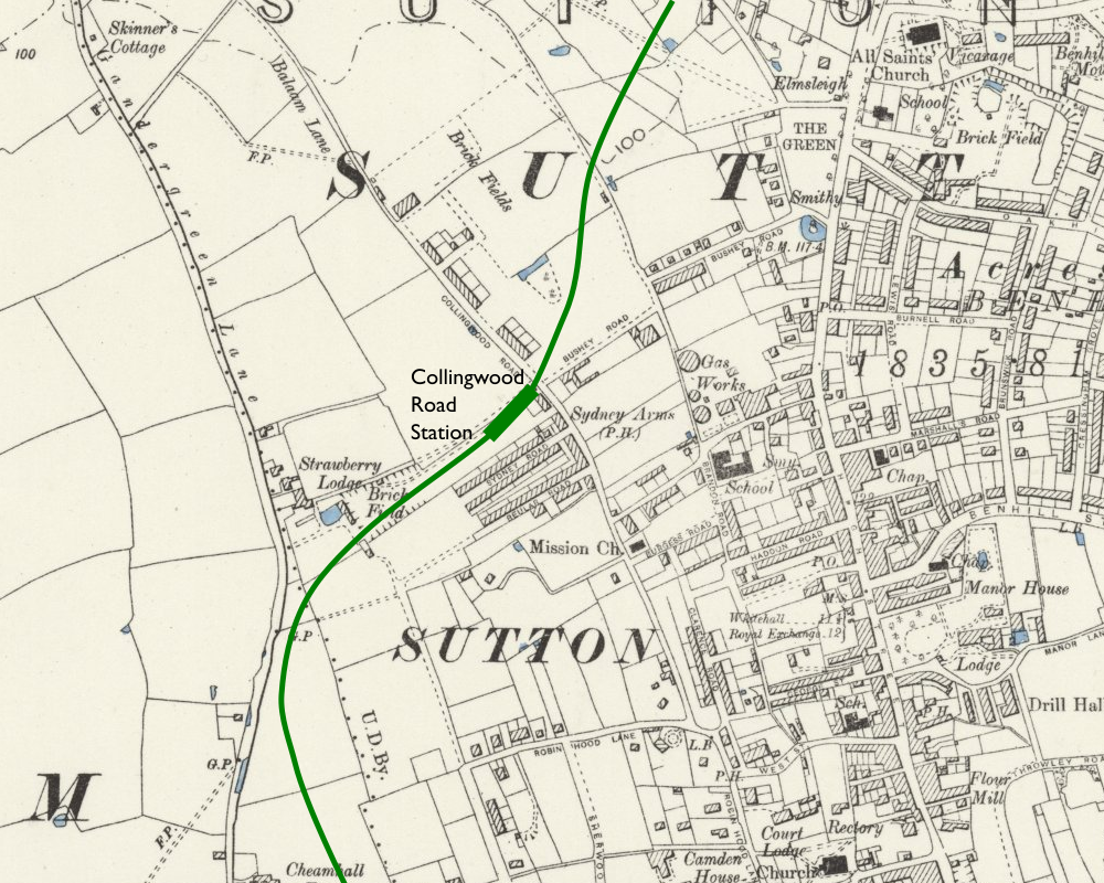 Proposed location of Wimbledon and Sutton Railway's unbuilt Collingwood Road station and route of line superimposed on an Ordnance Survey Map.